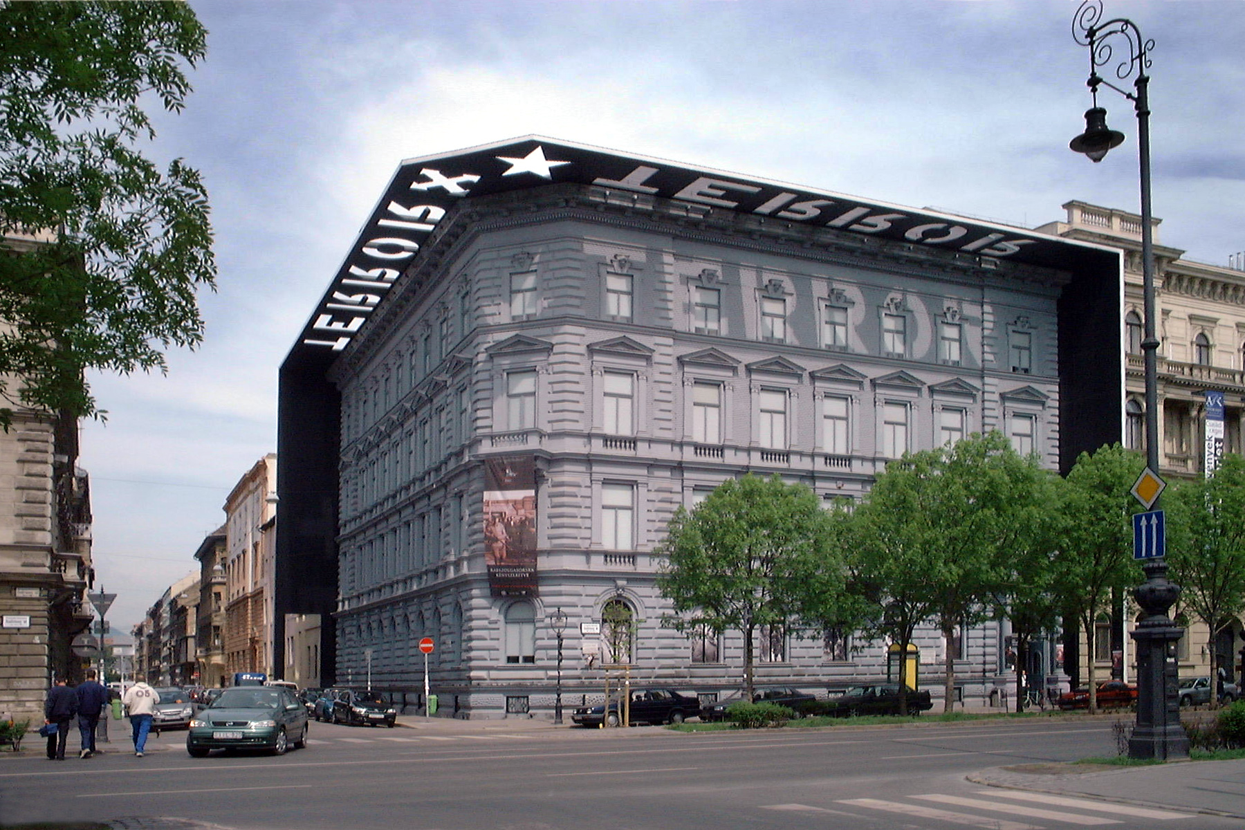 Terror Museum in Budapest Date : May 2005